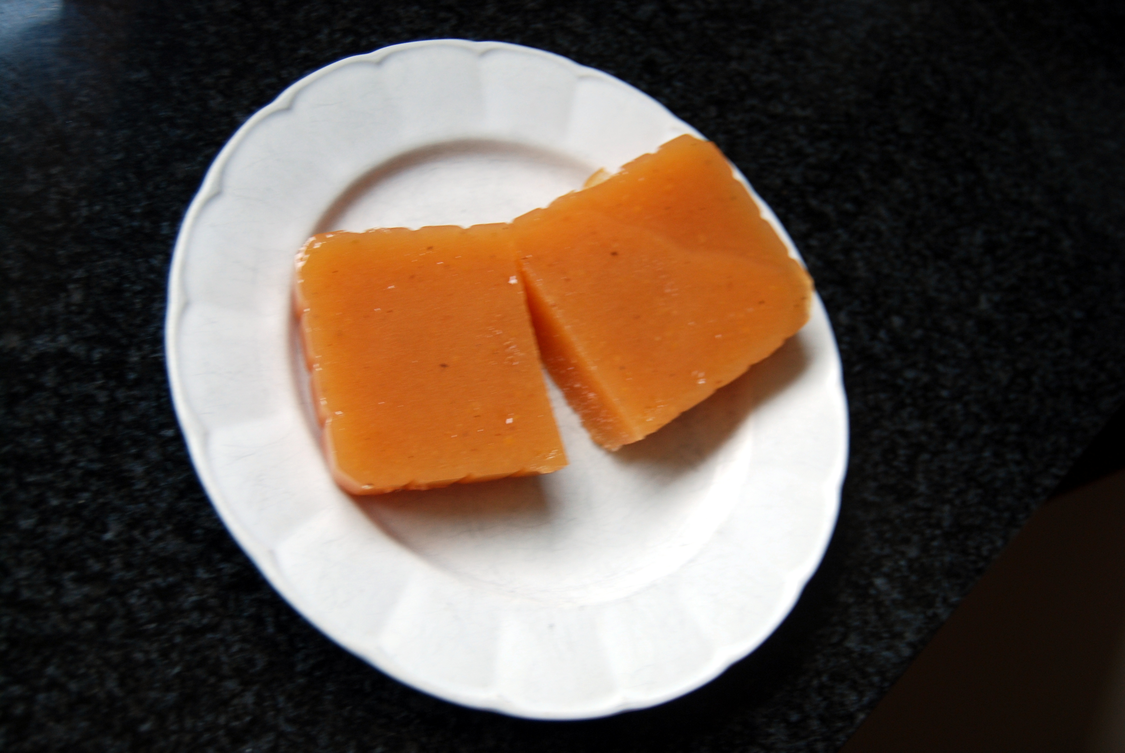 Dulce de membrillo.